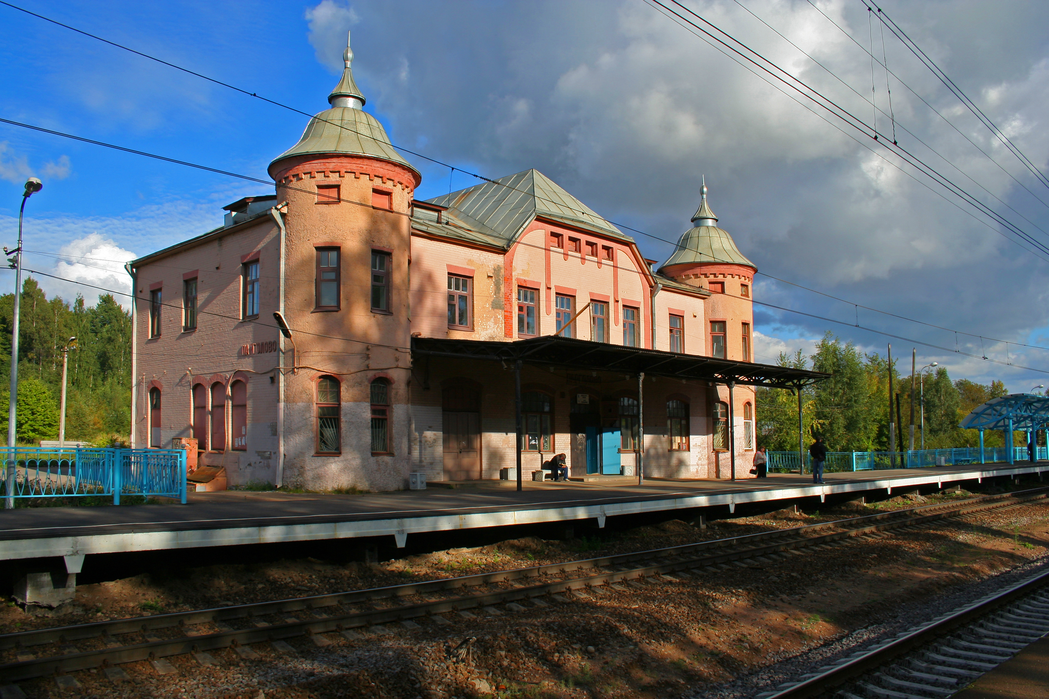 Saint Petersburg, Pargolovo train station